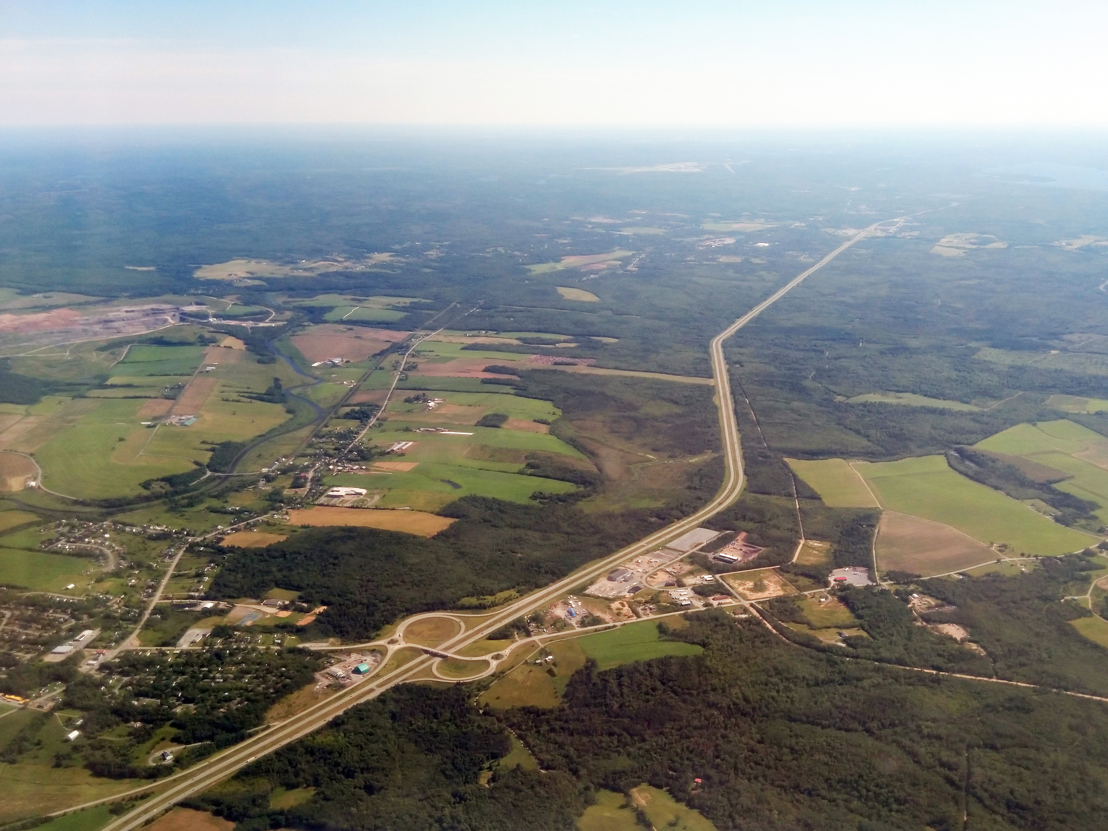 Aerial view of Highway 102 at Exit 9 near Milford Station, Nova Scotia, Canada, on 8 July 2018.